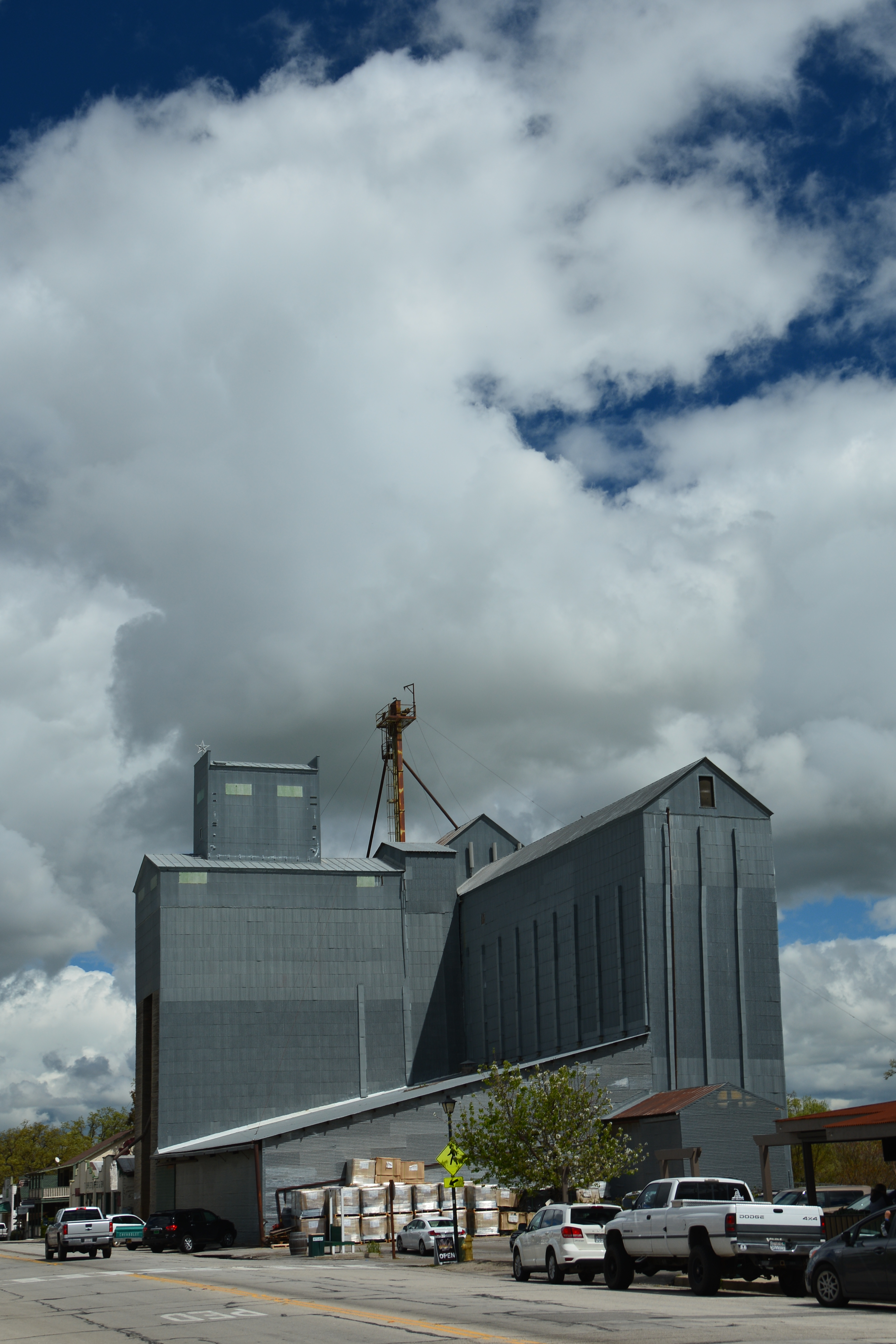 Grain Tower in downtown Templeton California